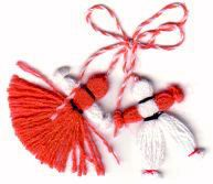 Martenitsa, or Pijo and Penda, a Bulgarian and Romanian tradition, celebrating the spring arrival. See also: Martenitsa. Alt. spellings: Martenitza, Pizho and Pendo, Martenitsi, Martenichki, Martenichka, Martenica.